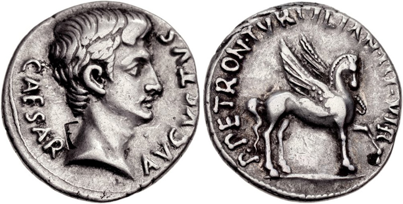 Augustus. 27 BC-AD 14. AR Denarius (18mm, 3.78 g, 6h). Rome mint. P. Petronius Turpilianus, moneyer. Struck 19/8 BC. Bare head right Pegasus walking right. RIC I 297; RSC 491. Good VF, banker’s mark behind neck on obverse.